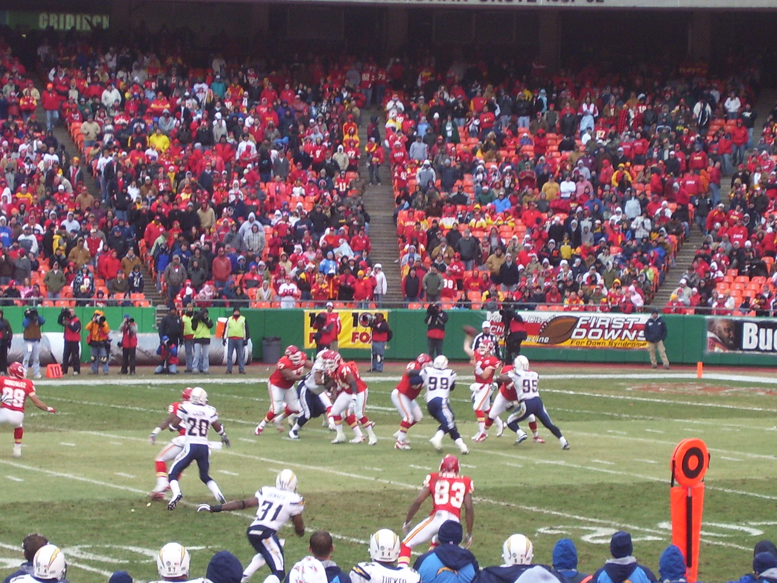 San Diego Chargers at Kansas City Chiefs, 14 December 2008 at Arrowhead Stadium.